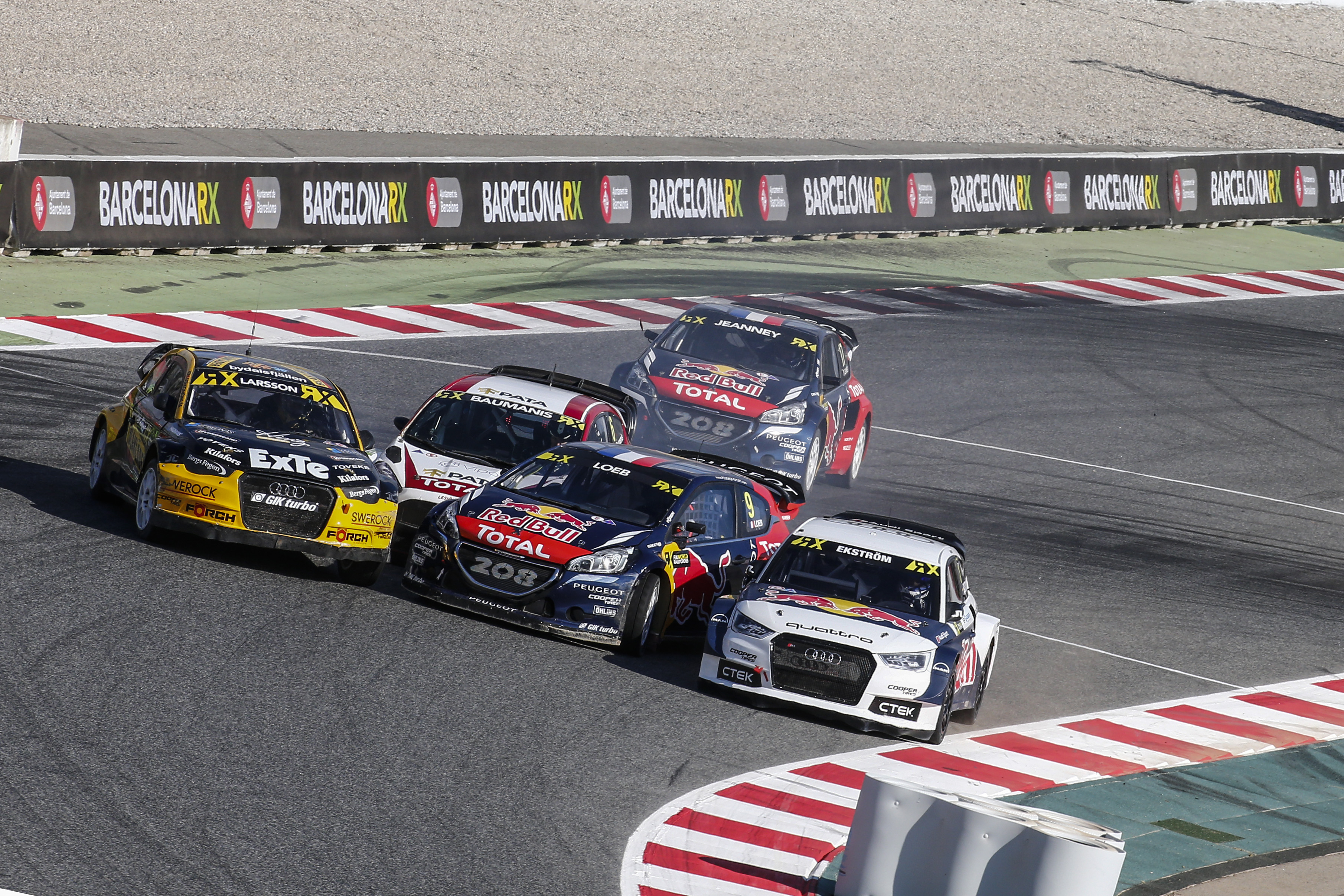 2016 FIA World RX Rallycross Championship / Round 09, Barcelona, Spain, September 17-18 2016 // Worldwide Copyright:Tony Welam/EKS/McKlein 2016 FIA World RX Rallycross Championship / Round 09, Barcelona, Spain, September 17-18 2016 // Worldwide Copyright:Tony Welam/EKS/McKlein